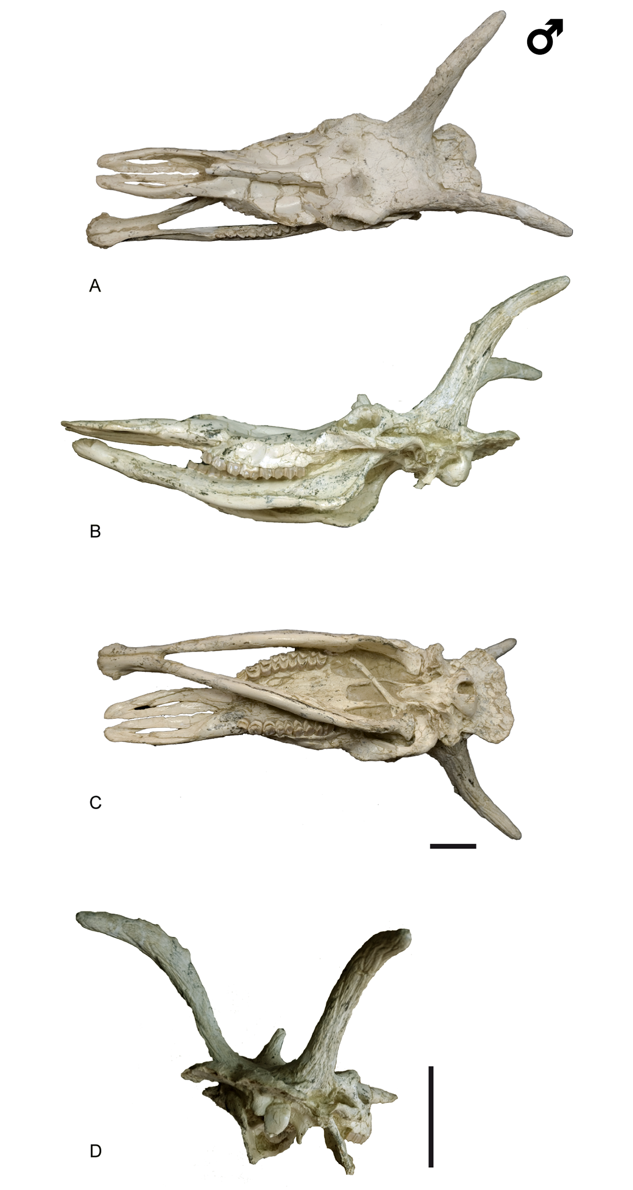 Cranial remains of Decennatherium rex sp. nov. from BAT10. A-C, BAT10’13.E2-69, skull in A, dorsal view; B, medial/lateral view; C, ventral view; D, caudal view. Scale bar equals 10 cm.